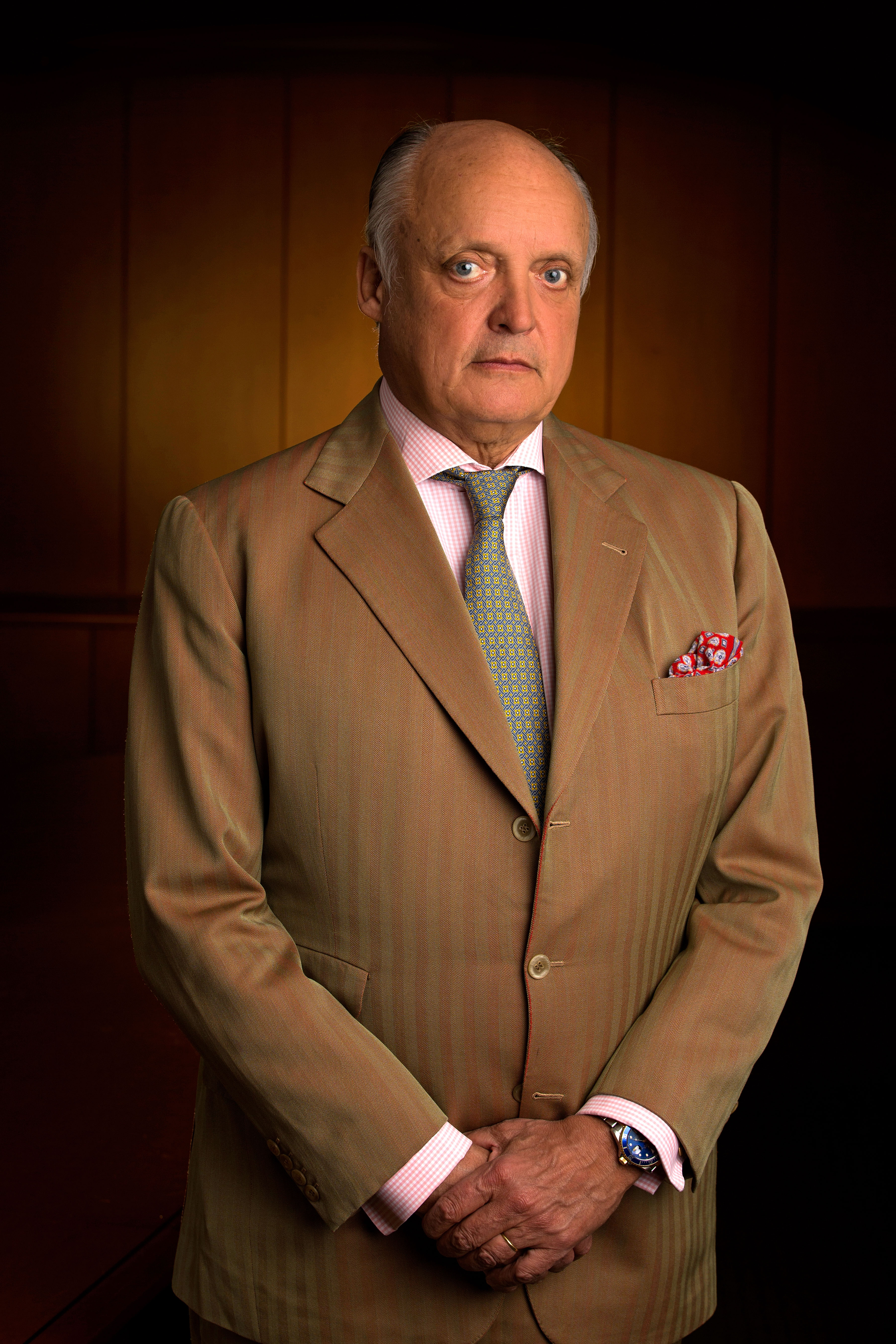 Riprand Count Arco at the Charlotte North Carolina American Asset Corporation offices.